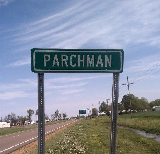 Highway sign depicting the name of the locale in Mississippi